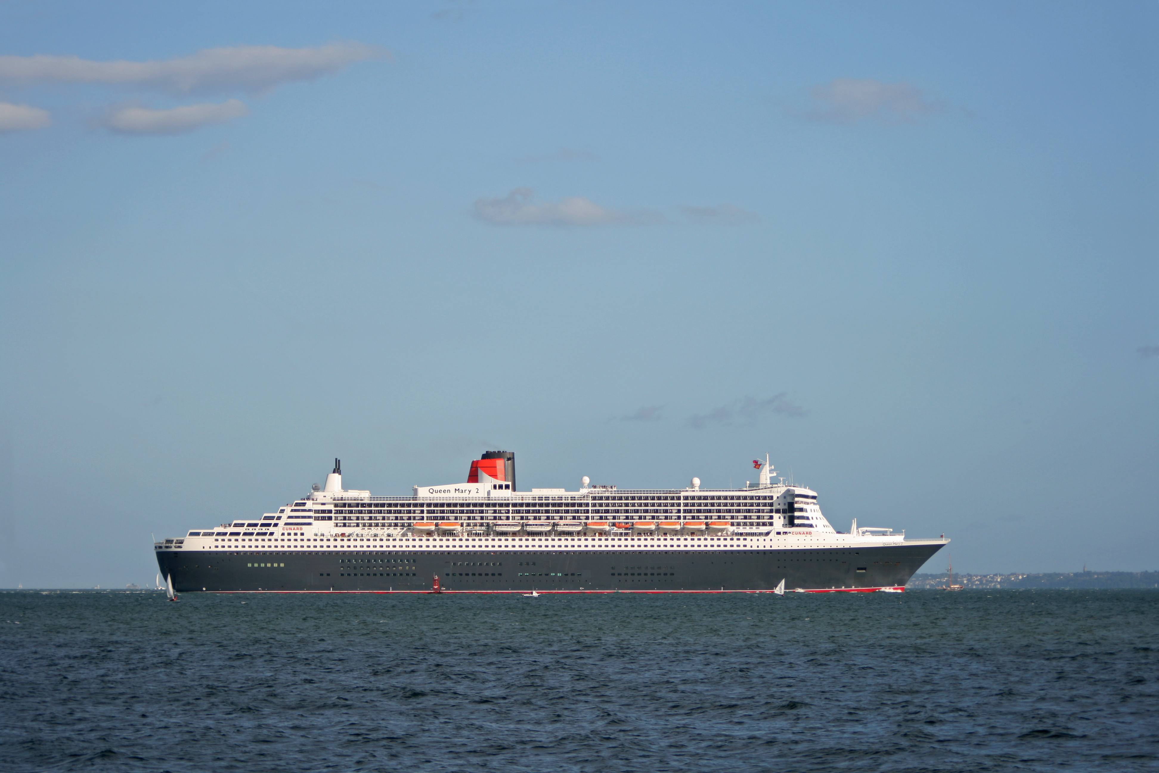 148'528, gross tons Cunarder Queen Mary 2 passing Calshot Spit light buoy in the Solent, outward bound from Southampton. Image uploaded by me George.Hutchinson from a photograph taken by and supplied by Brian Burnell. The photograph should be attributed to Brian Burnell. Wikipedia editors are reminded that the copyright remains with the photographer, and that the terms of the Creative Commons Attribution-ShareAlike 3.0 Unported Licence that allow editors to reuse this image apply to Wikipedia editors also, as they do to other reusers of this image. Breaches of the licence terms are not only unlawful, but are also antisocial, in that breaches discourage photographers from making their images freely available to everyone without payment. Non-Wikipedia users are requested to advise Brian Burnell of its use other than on Wikipedia.